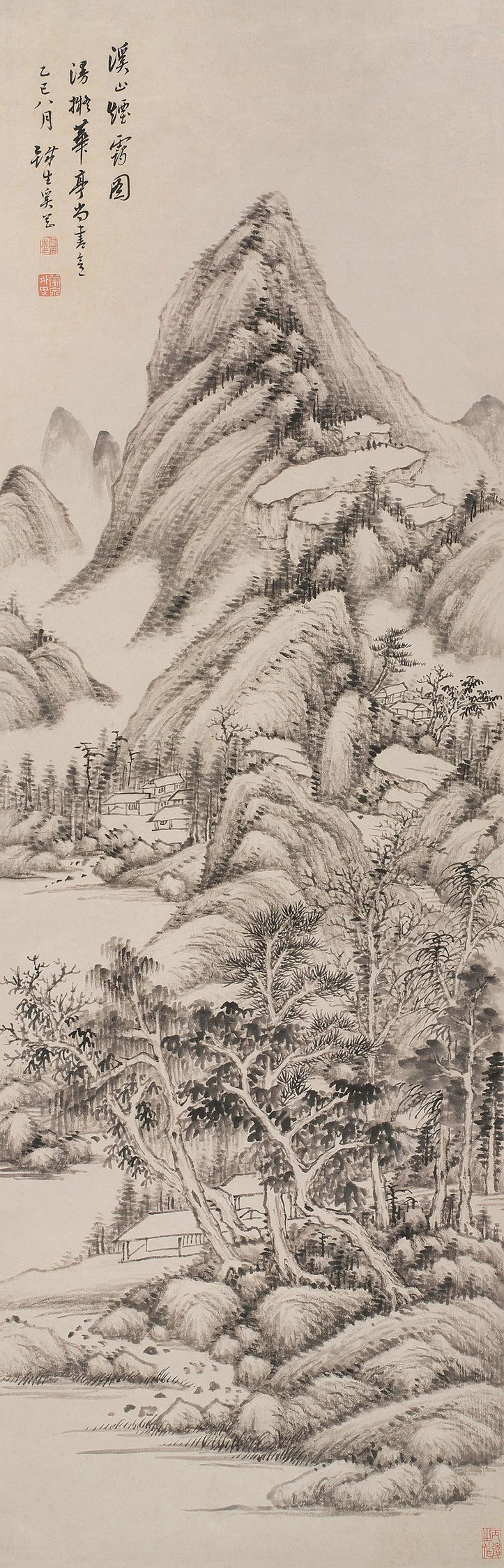 Cloudy Mountain